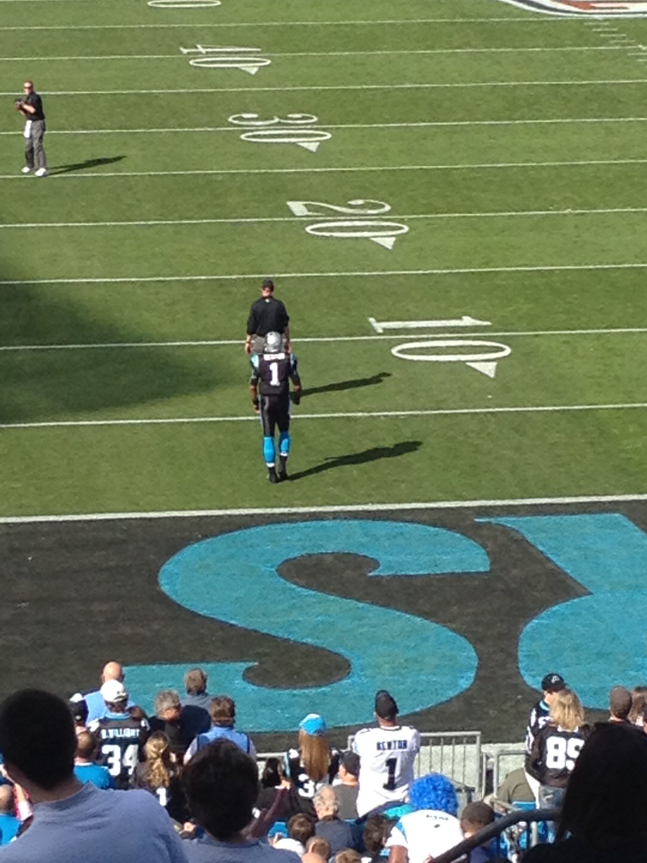 Cam Newton warming up on November 11